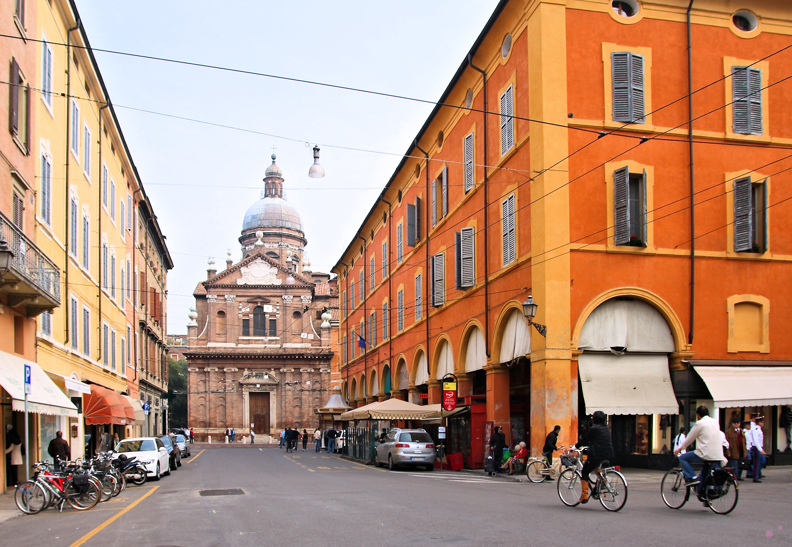 Chiesa del Voto church and Corso Duomo street in Modena, Italy.